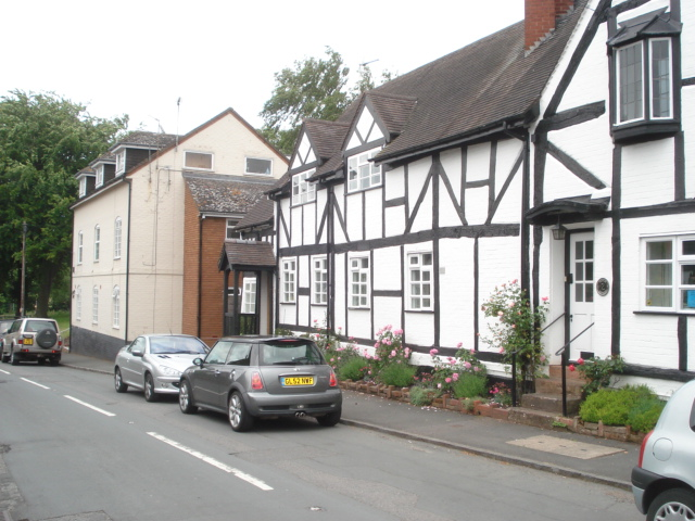 Main street at Chaddesley Corbett Attractive black and white cottage on a road which is quite difficult to drive along because of a large amount of parked cars.